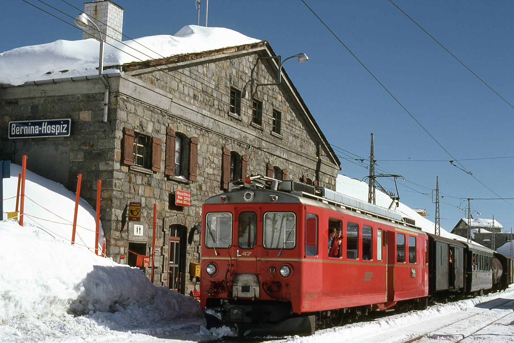 ABe 4/4 II No. 47 at Bernina Hospiz station.